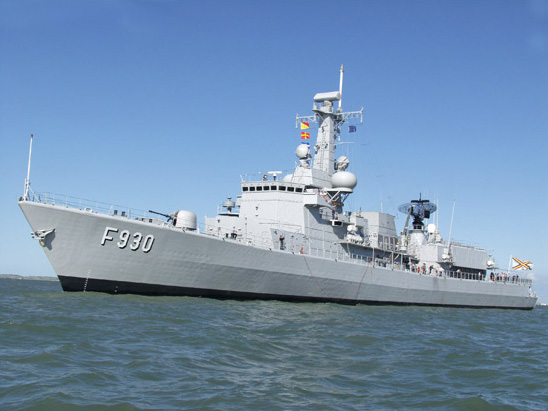 F930 Leopold I - a Karel Doorman-class frigate of the Belgian Naval component. The picture was published on the website (see source information) and is used in Wikpedia with the permission of the communications service of the Naval Components